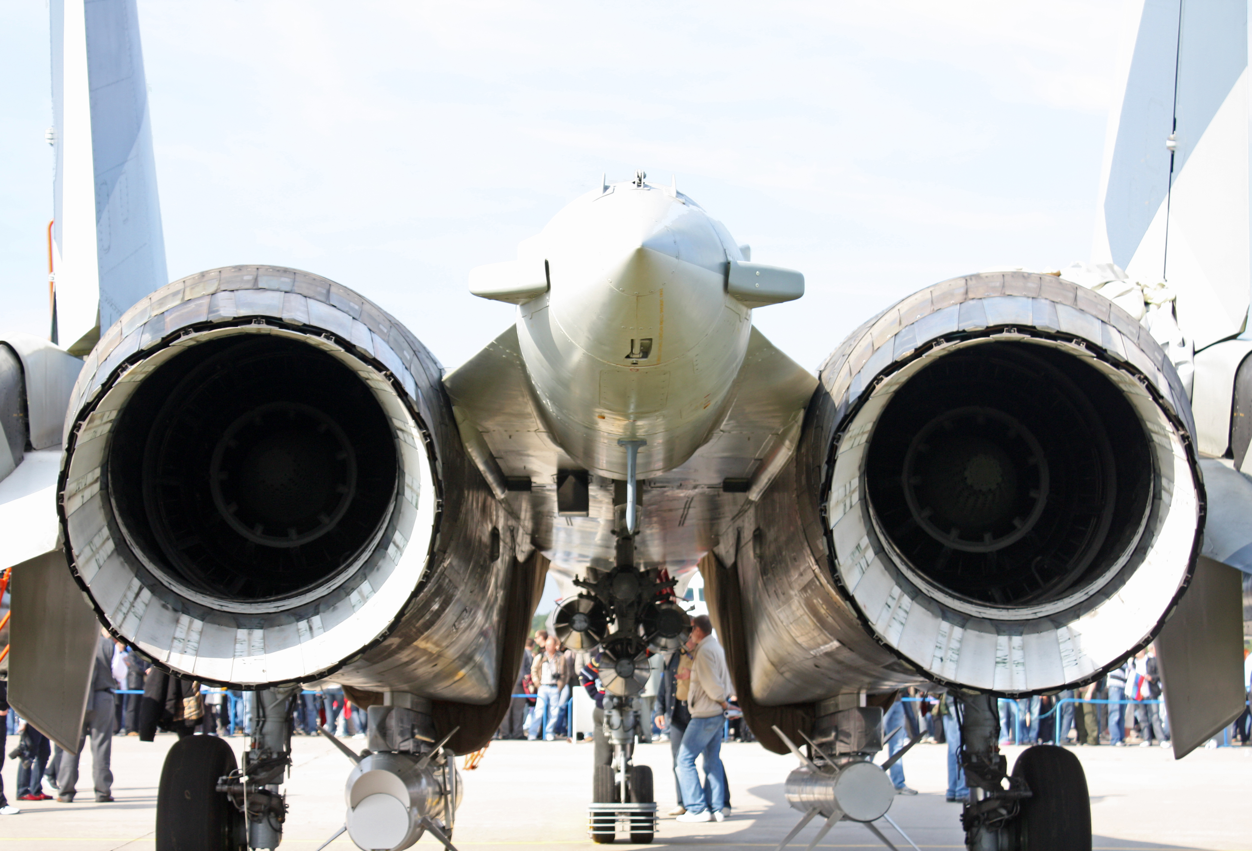 Sukhoi Su-35 (The international aerospace salon MAKS-2009)